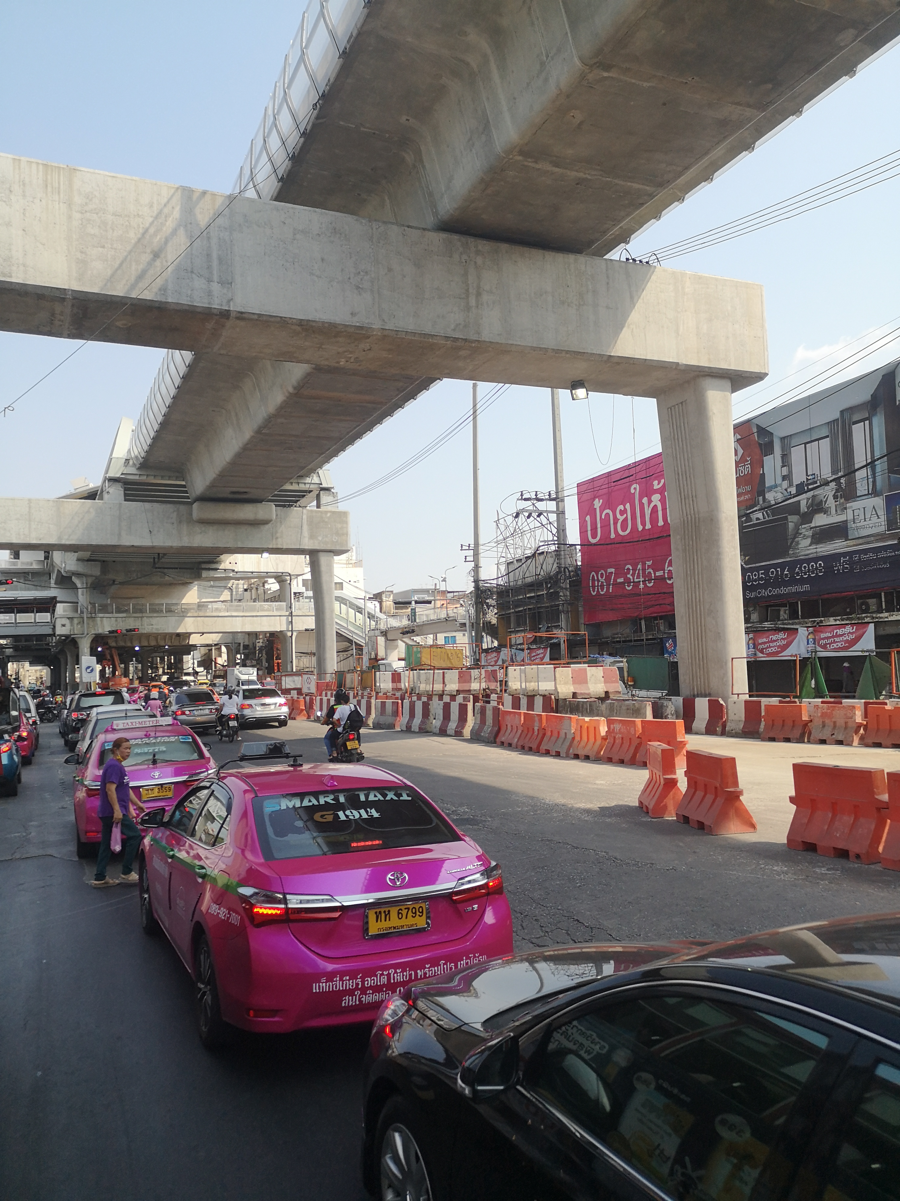 Thanon Charan Sanit awong.